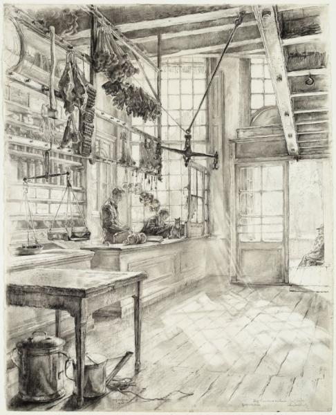 Tekening van W.G. Hofker